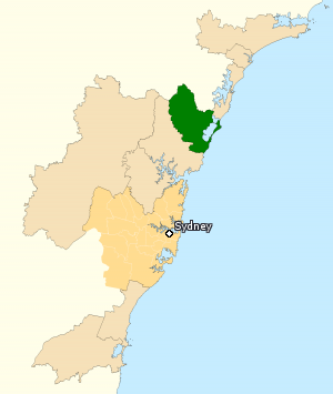 Incorporates or developed using Administrative Boundaries ©PSMA Australia Limited licensed by the Commonwealth of Australia under Creative Commons Attribution 4.0 International licence (CC BY 4.0). Derived from State and Territory Boundaries from the Australian Bureau of Statistics under Creative Commons Attribution 2.5 Australia license (CC BY 2.5 AU)